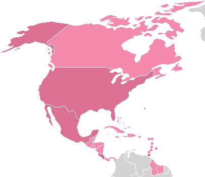 Description Teams of , - North America Date24 April 2009Sourceown work based on File:FIFA WM 2006 Teams.pngAuthor44Charles Teams of , - North America